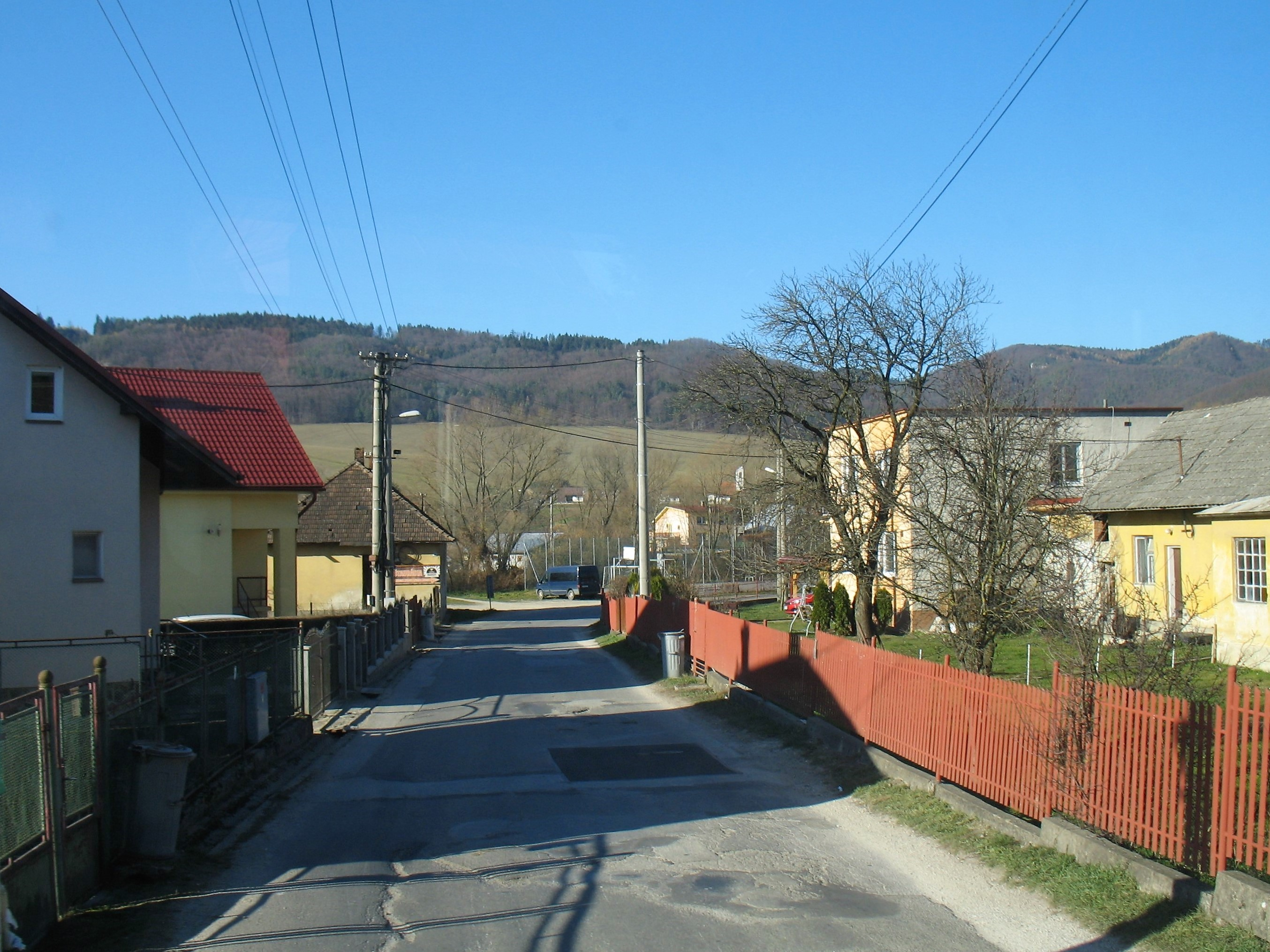 Village Kĺače, Žilina District, Slovakia